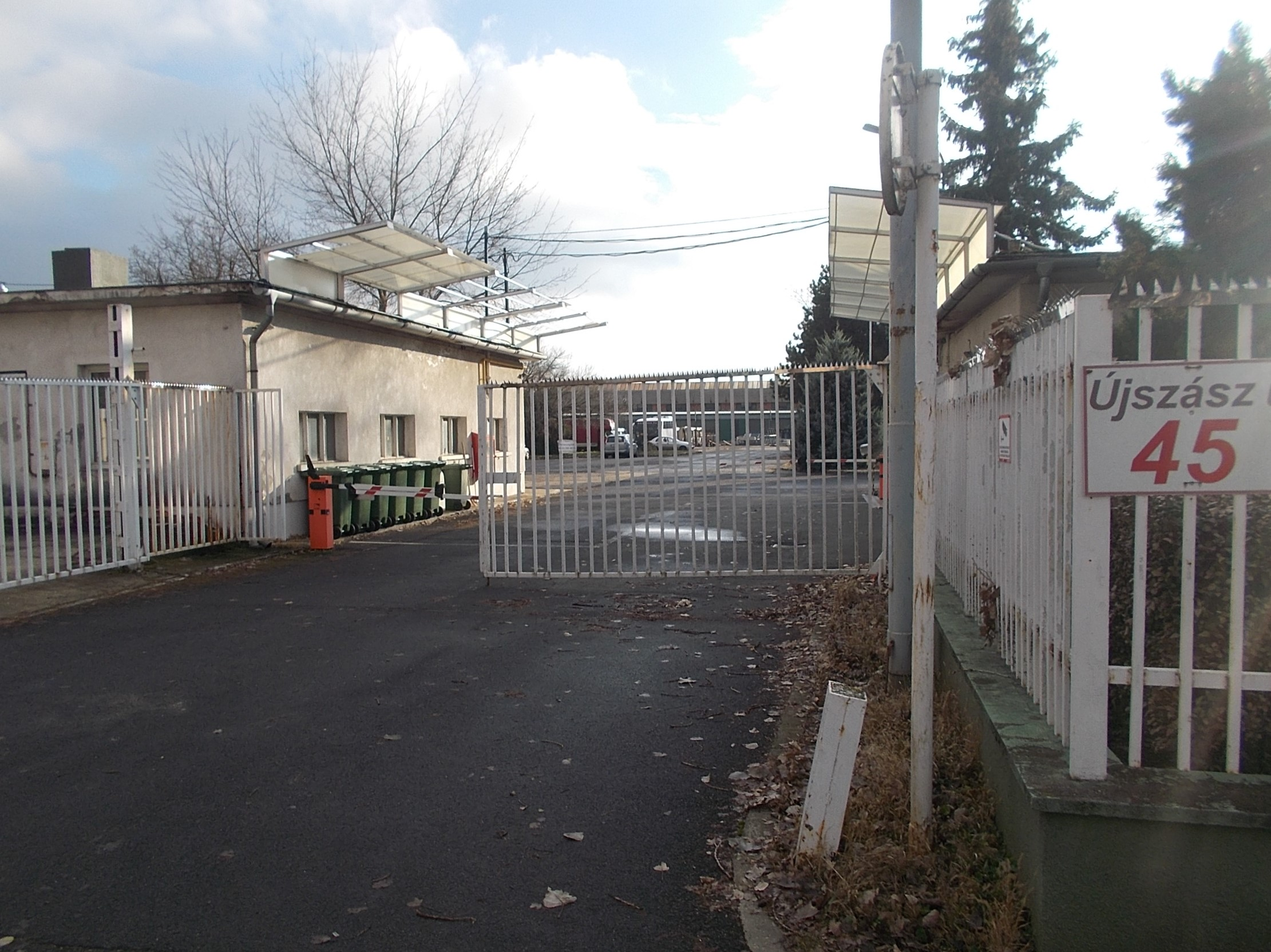 Ikarus Egyedi bus factory, gate, barrier. - c. 45 Újszász street, Mátyásföld, 16th district of Budapest.